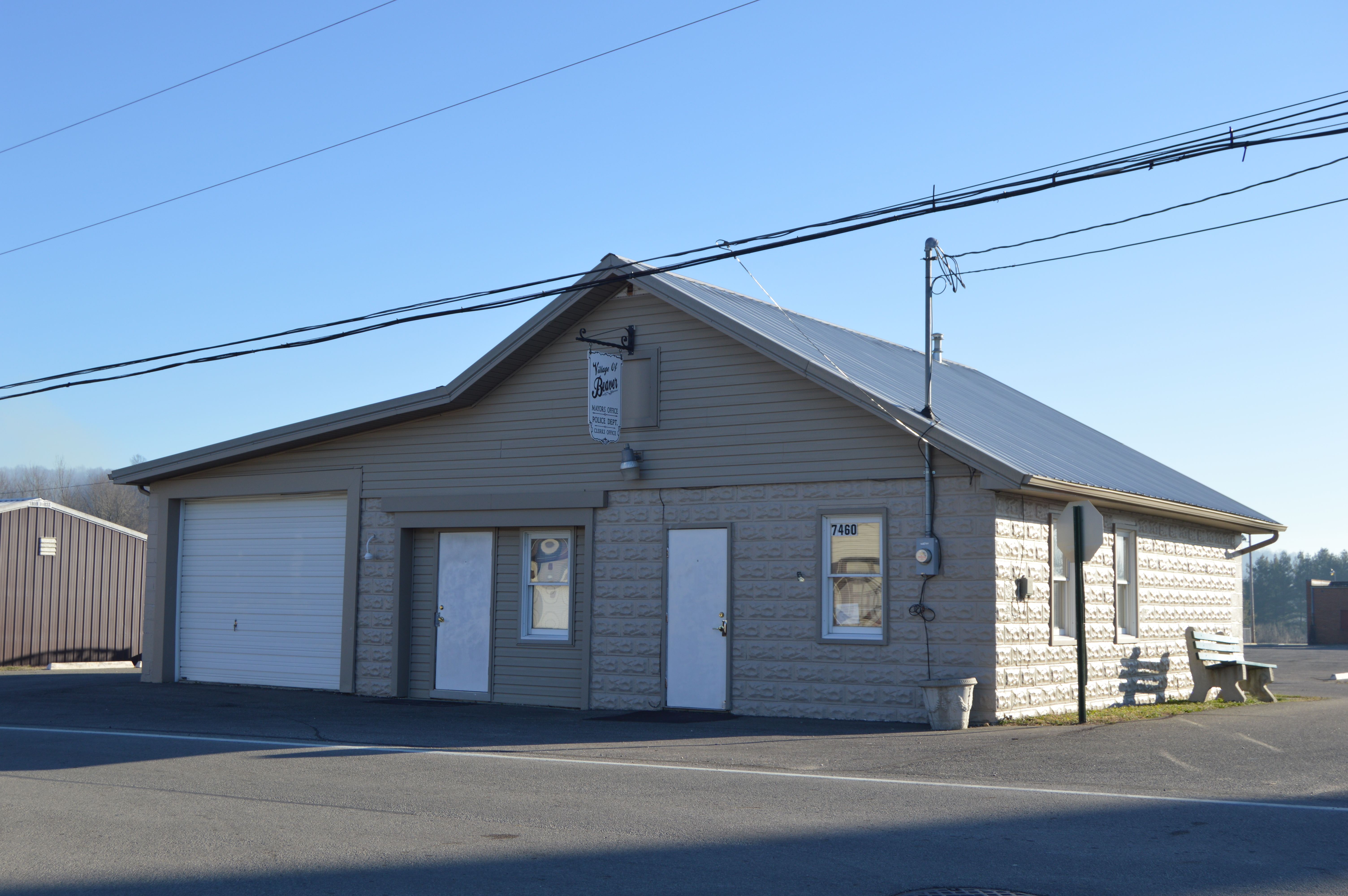 Front and southern side of the Beaver municipal building, located at 7460 Central Avenue (State Route 335) in Beaver, Ohio, United States.